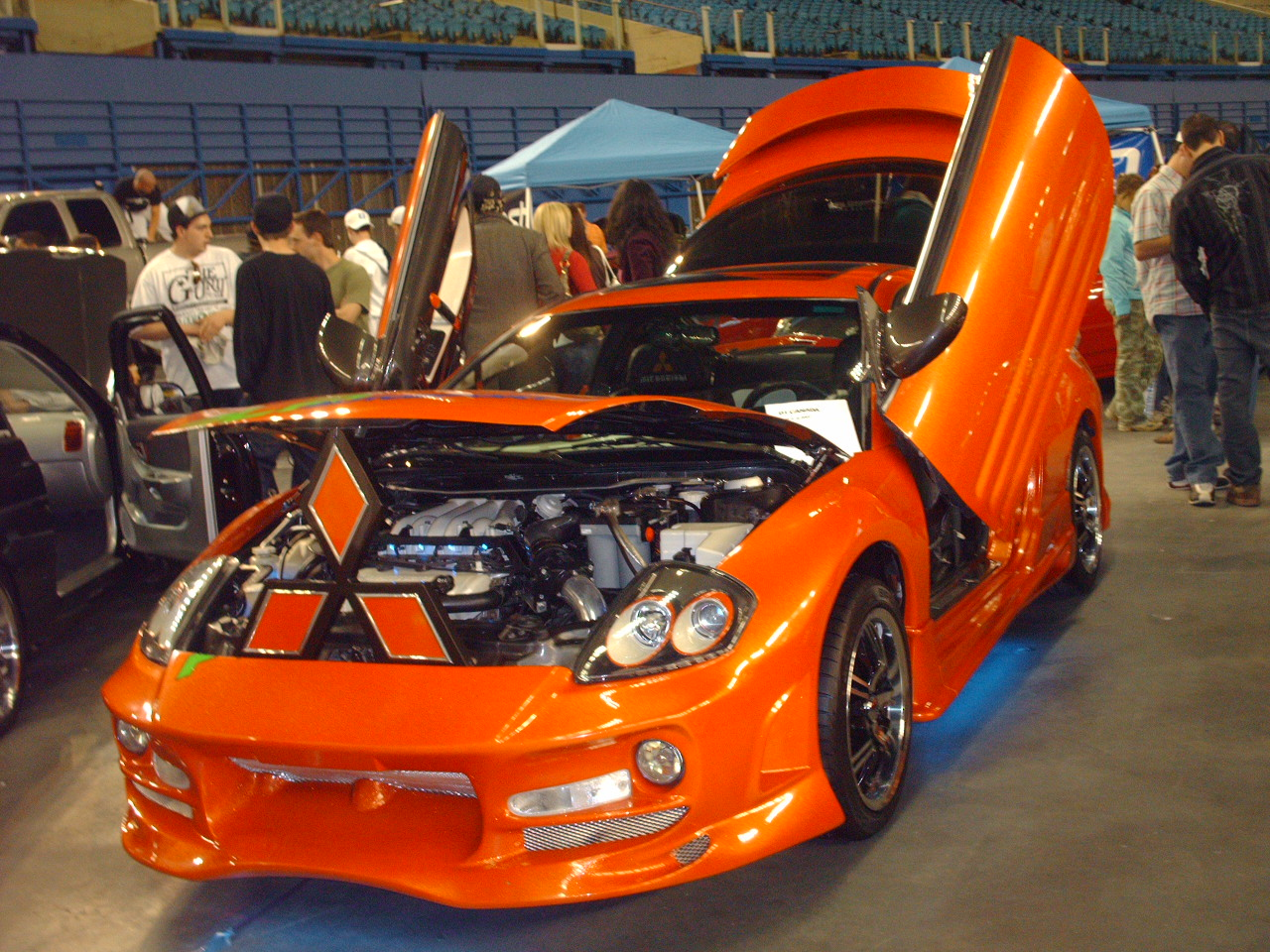 Tuned 2000-2005 Mitsubishi Eclipse photographed at the Montreal National Sport Compact Auto Show 2007.